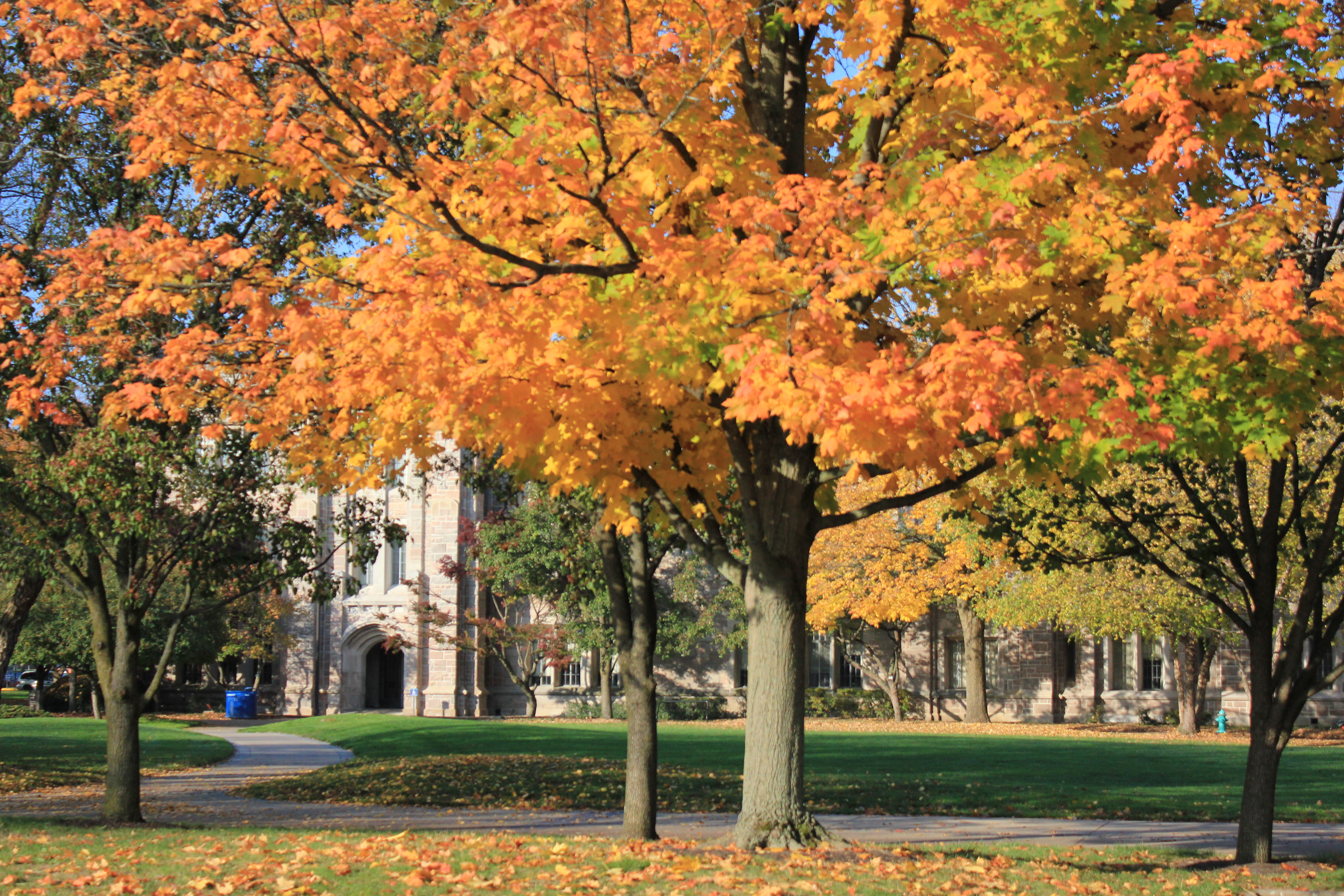 Butler University in the Fall, 2014